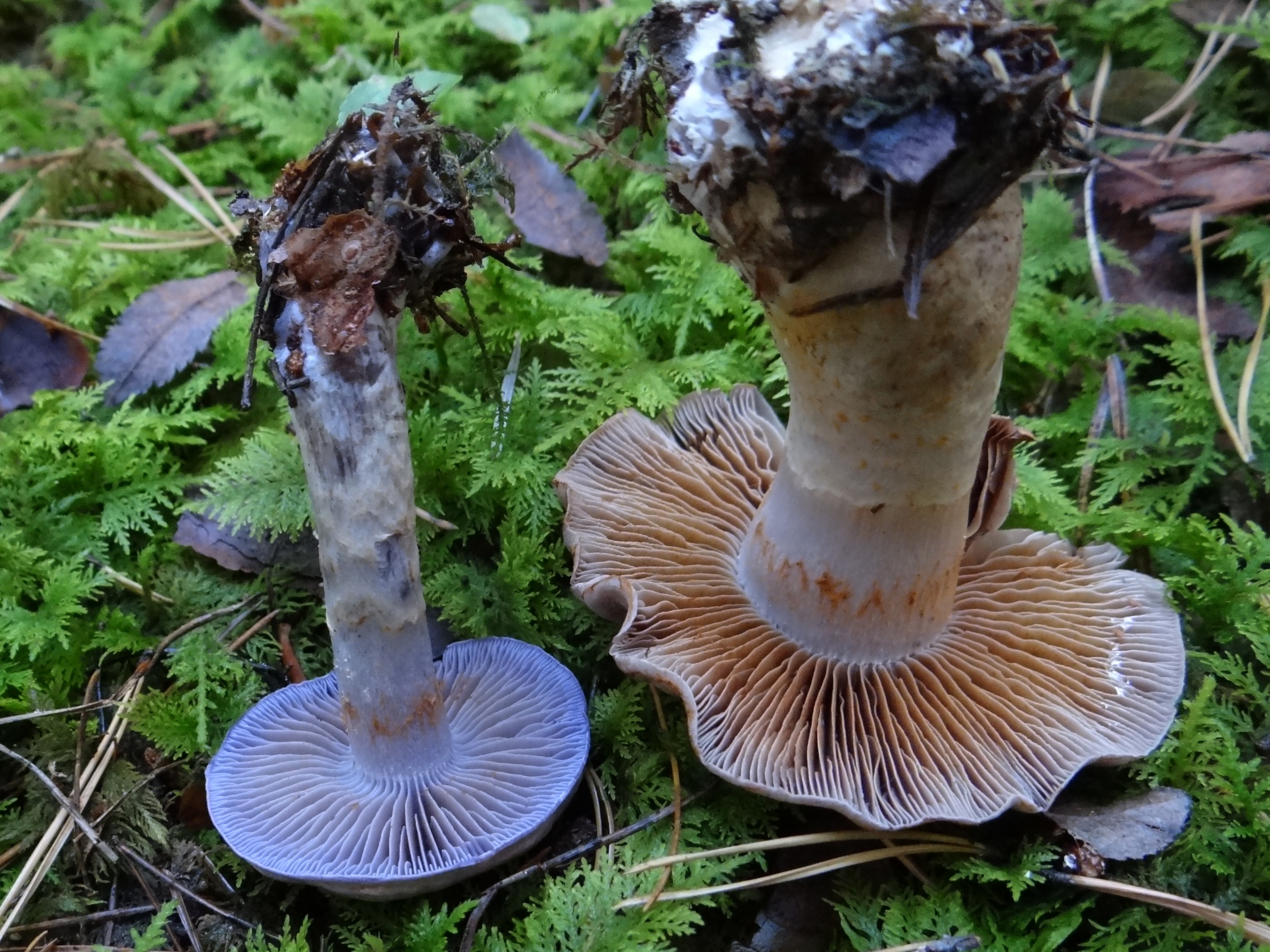 Cortinarius cyanites (location: Poland, Gorce)